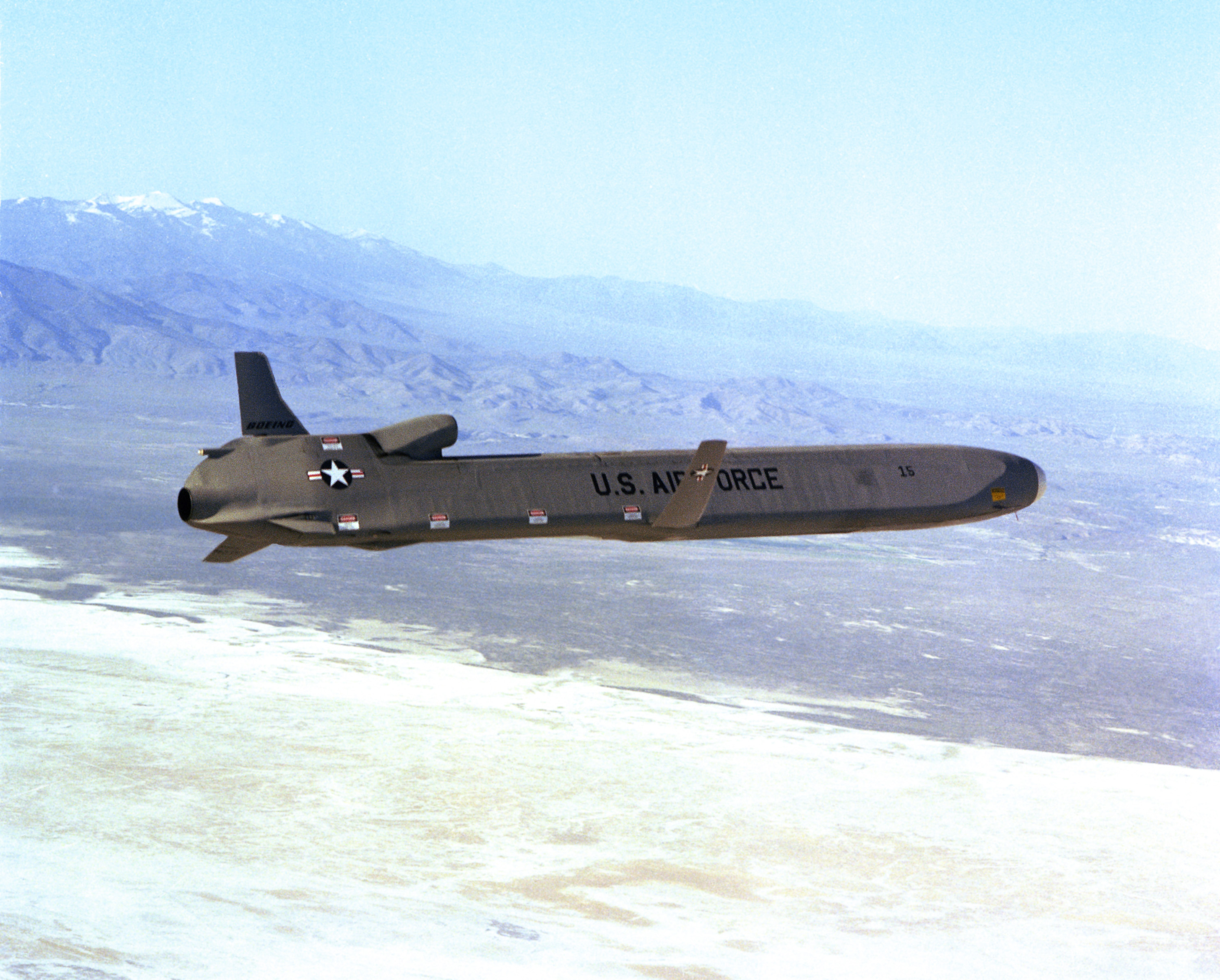 A right side view of an AGM-86 air launched cruise missile (ALCM) in flight.